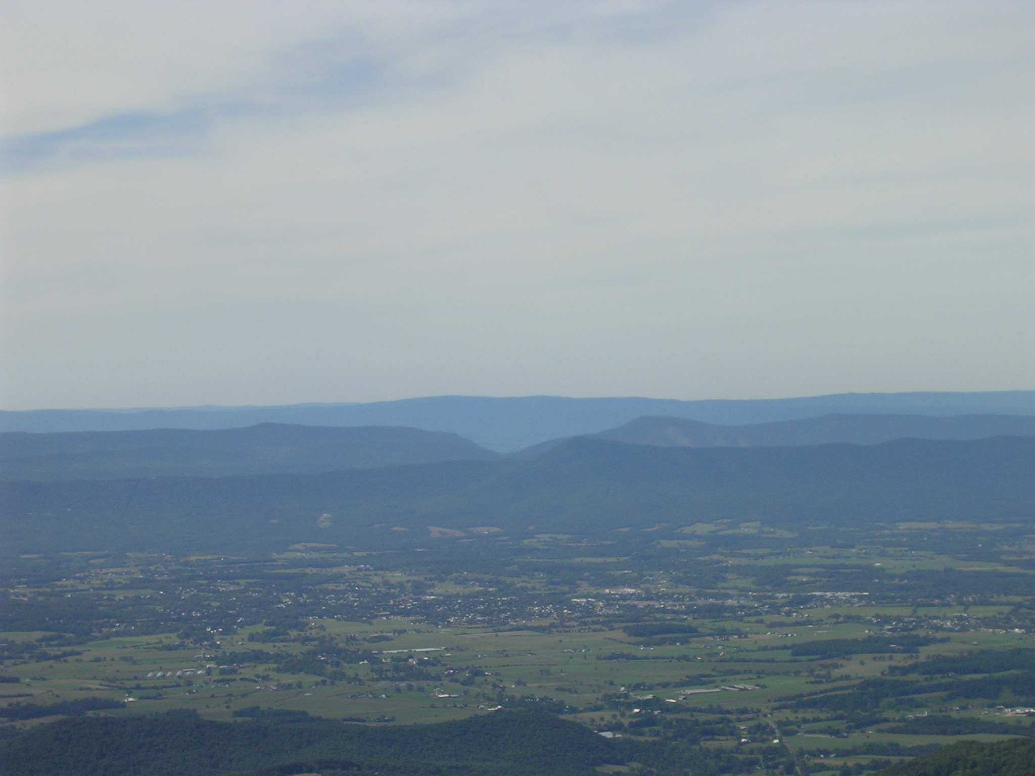 Massanutten Mountain at New Market Gap as seen from Hawksbill peak